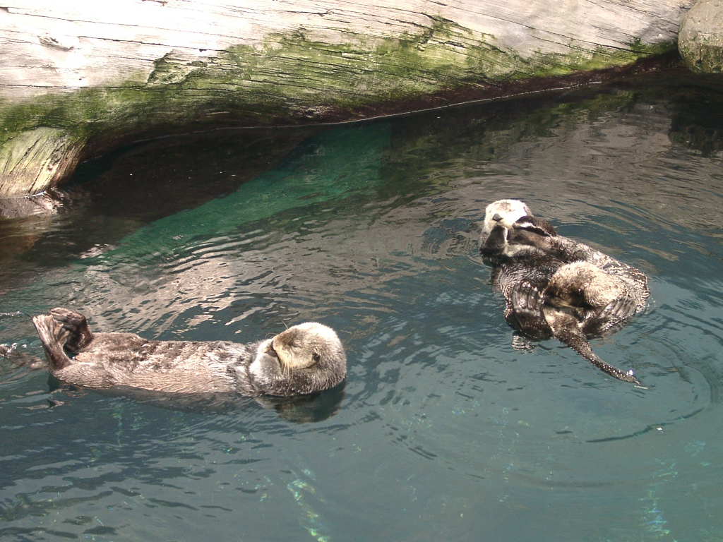 Sea Otter